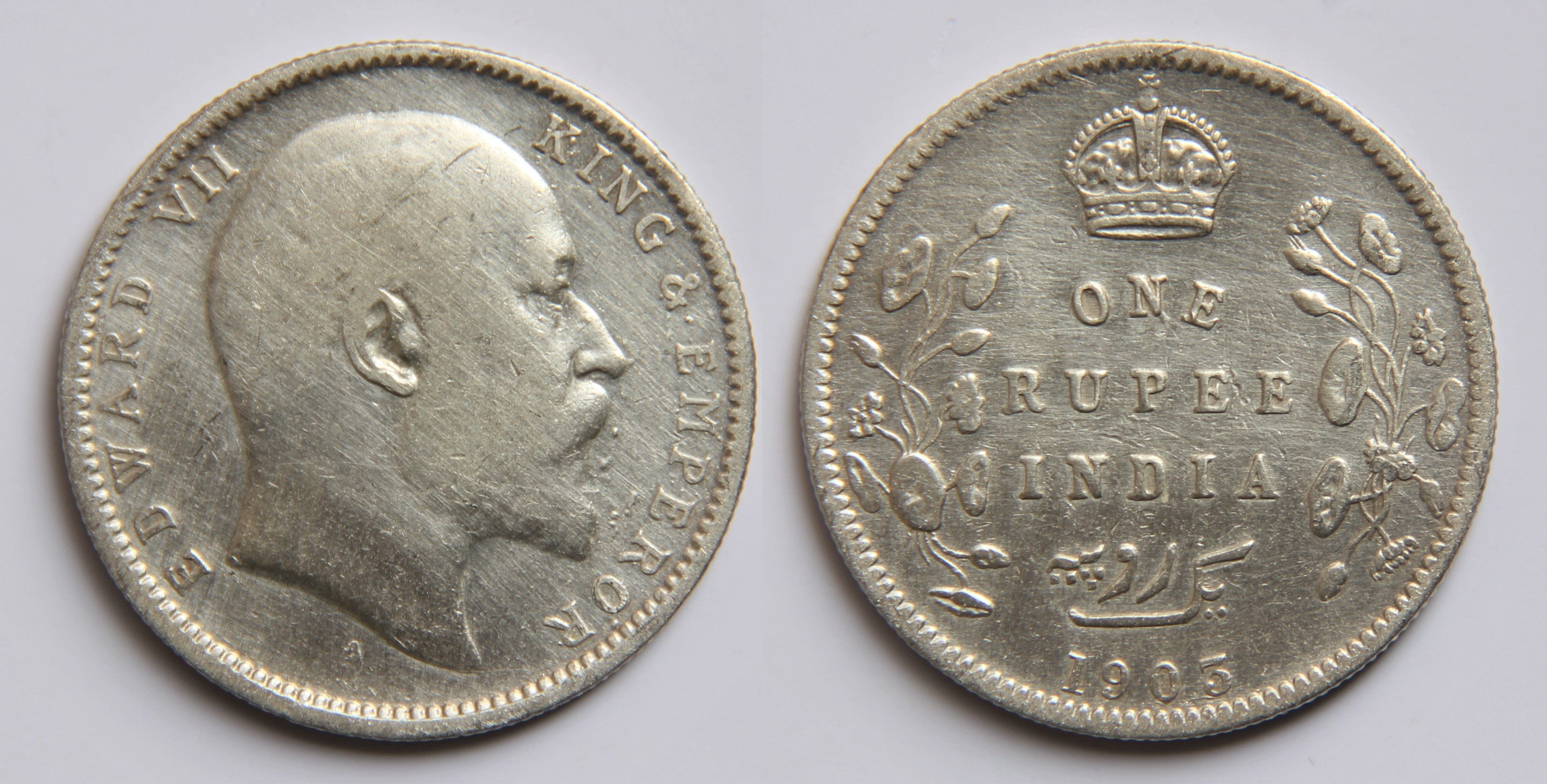 Face value: 1 Indian rupee coin. Country: Indian. Year of minting: 1905. Metal: Silver. Shape: Round. Obverse: Profile of Edward VII surrounded by his name. Reverse: Face value, country and date. Spray of lotus flowers on each side and a crown above. Edge: Reeded. Weight: 11.66 g. Diameter: 30.6 mm. Thickness: 1.9 mm. Orientation: Medal alignment ↑↑. Total mintage: 849,622,000 (1904 to 1910) Engraver: George William de Saulles. Comment: Made of 91.7% silver. This particular coin was minted at Kolkata mint since letter "B" (in small) is missing from the crown which indicated that the coin was minted in Mumbai and absence of which tells that coin was minted in Kolkata. Monetization status: Demonetized. Data source: This webpage.